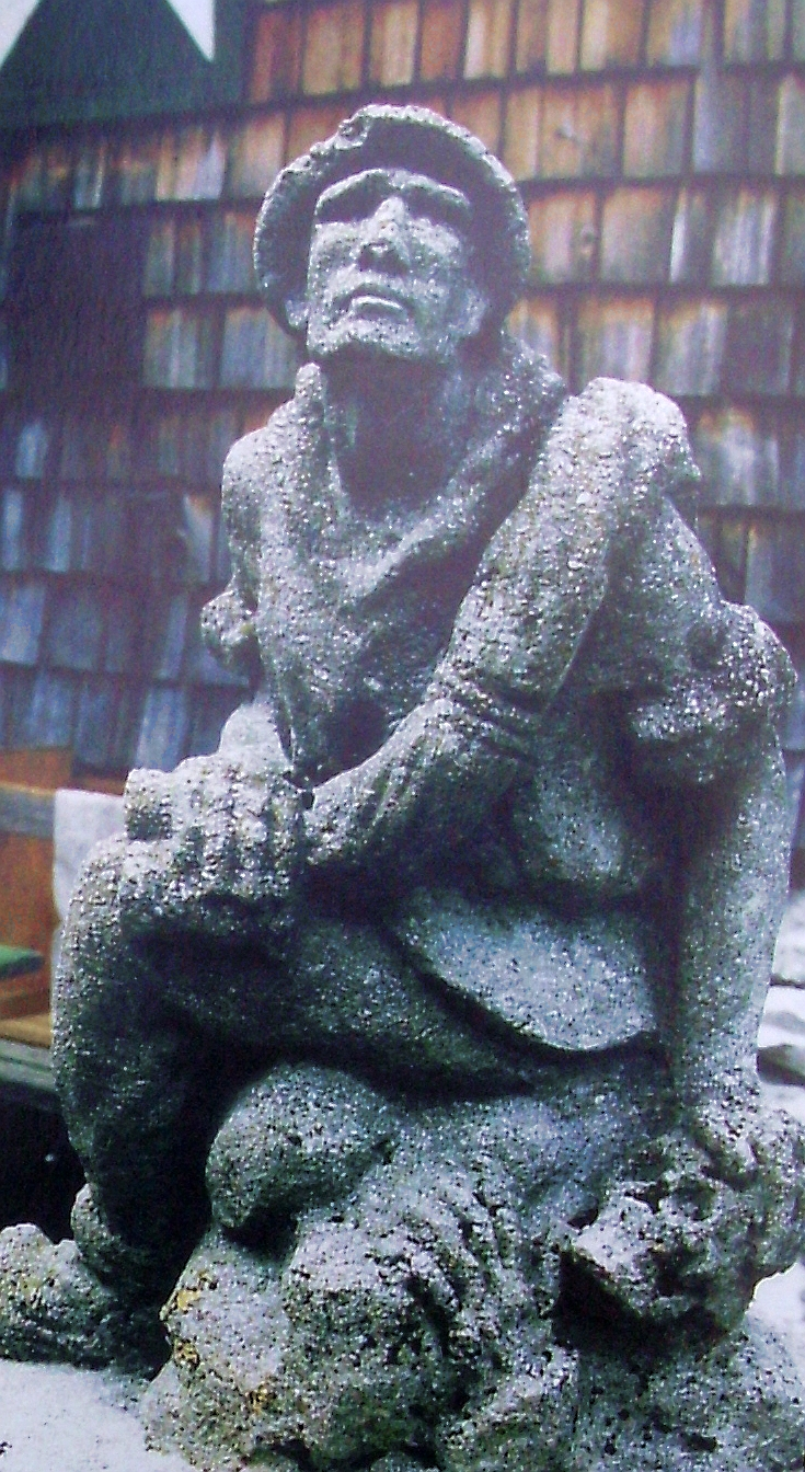 "The mountain rescuer" with rope and skull insignia. Mountain rescue hut, Haindlkar Gesäuse Styria Austria; by sculptor Carl Hermann.